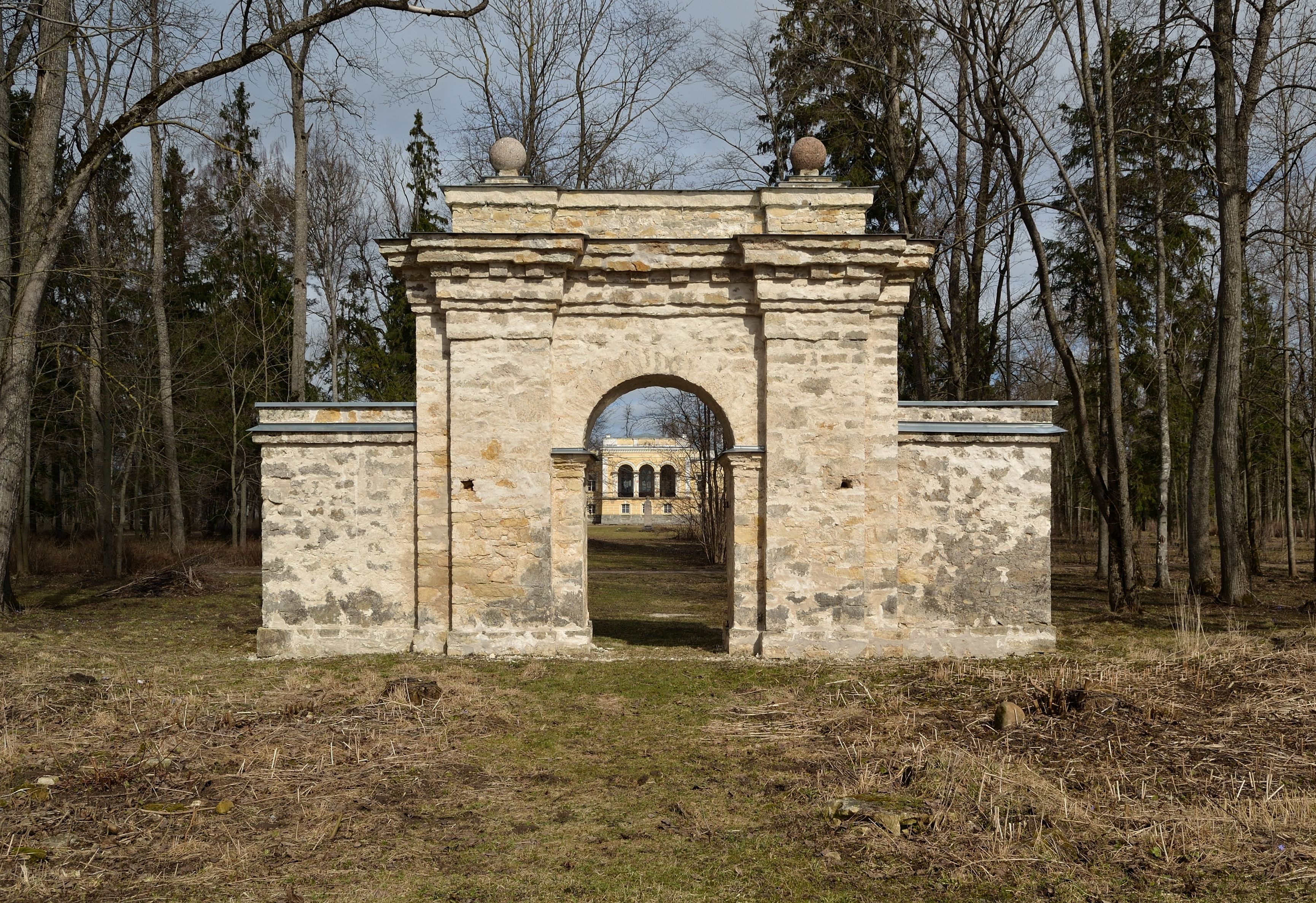 Muuga manor gates